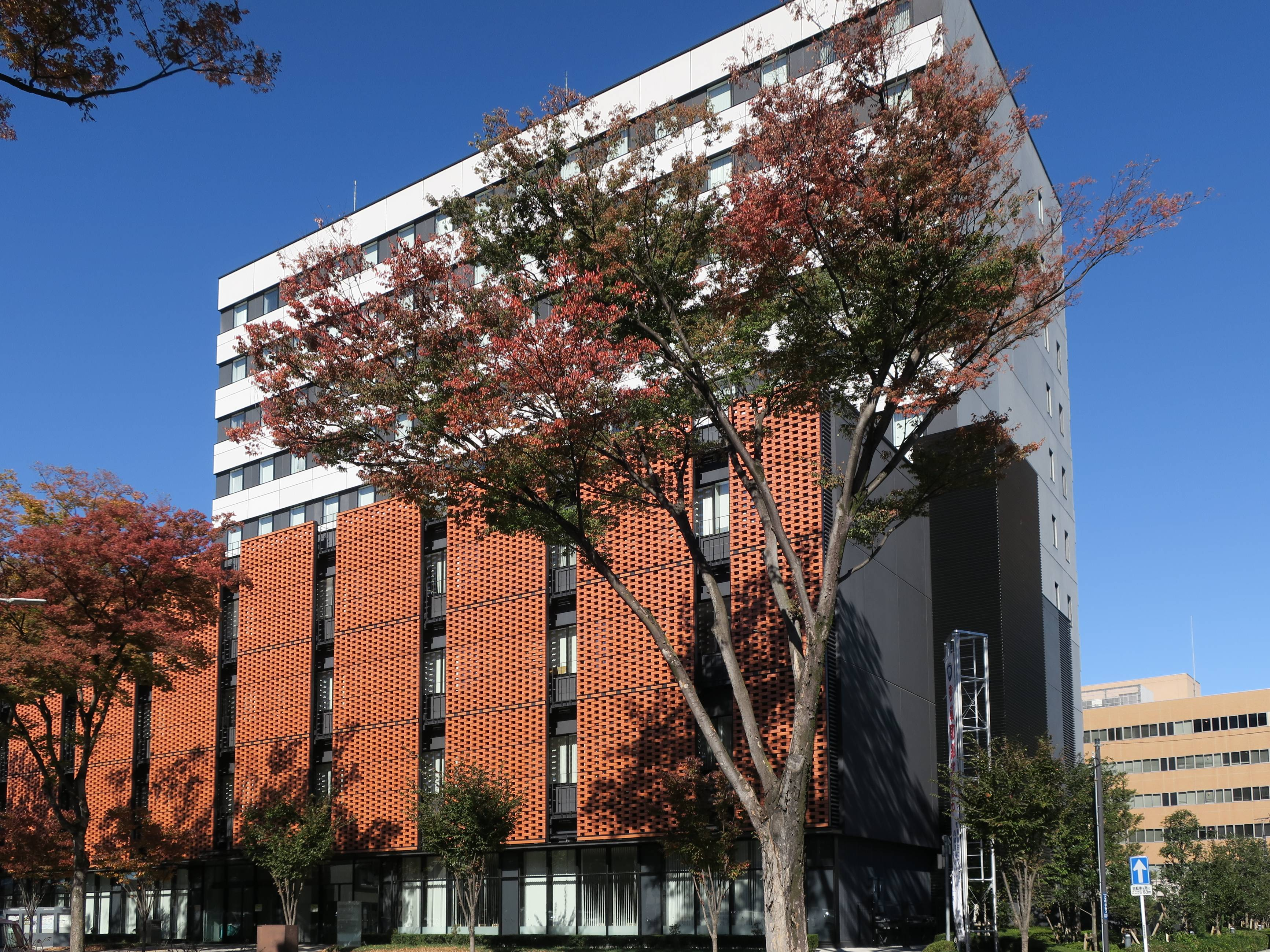 Maebashi National Government Building.